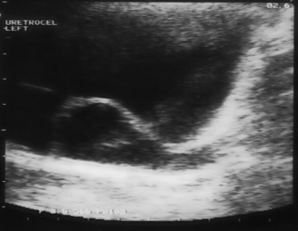 Ureterocele. Cobra head appearance of distal ureter as the distal ureter balloons at its opening into the bladder, forming a sac-like pouch. Provided as-is. Please feel free to categorise, add description.